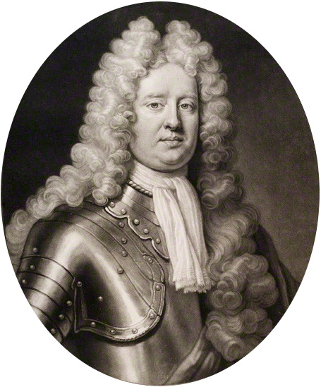 David Boyle, 1st Earl of Glasgow (c1666-1733)